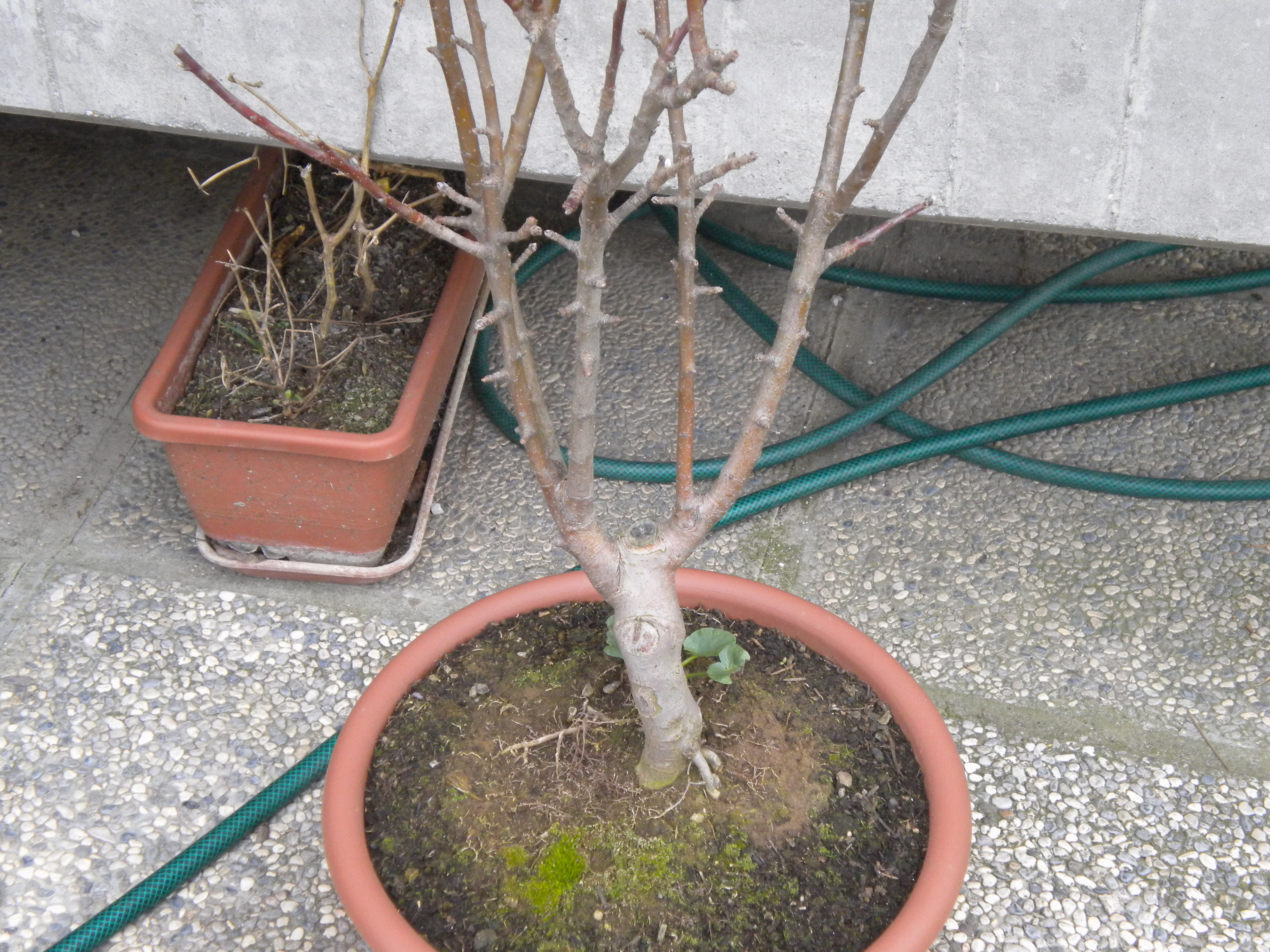 Malus communis.